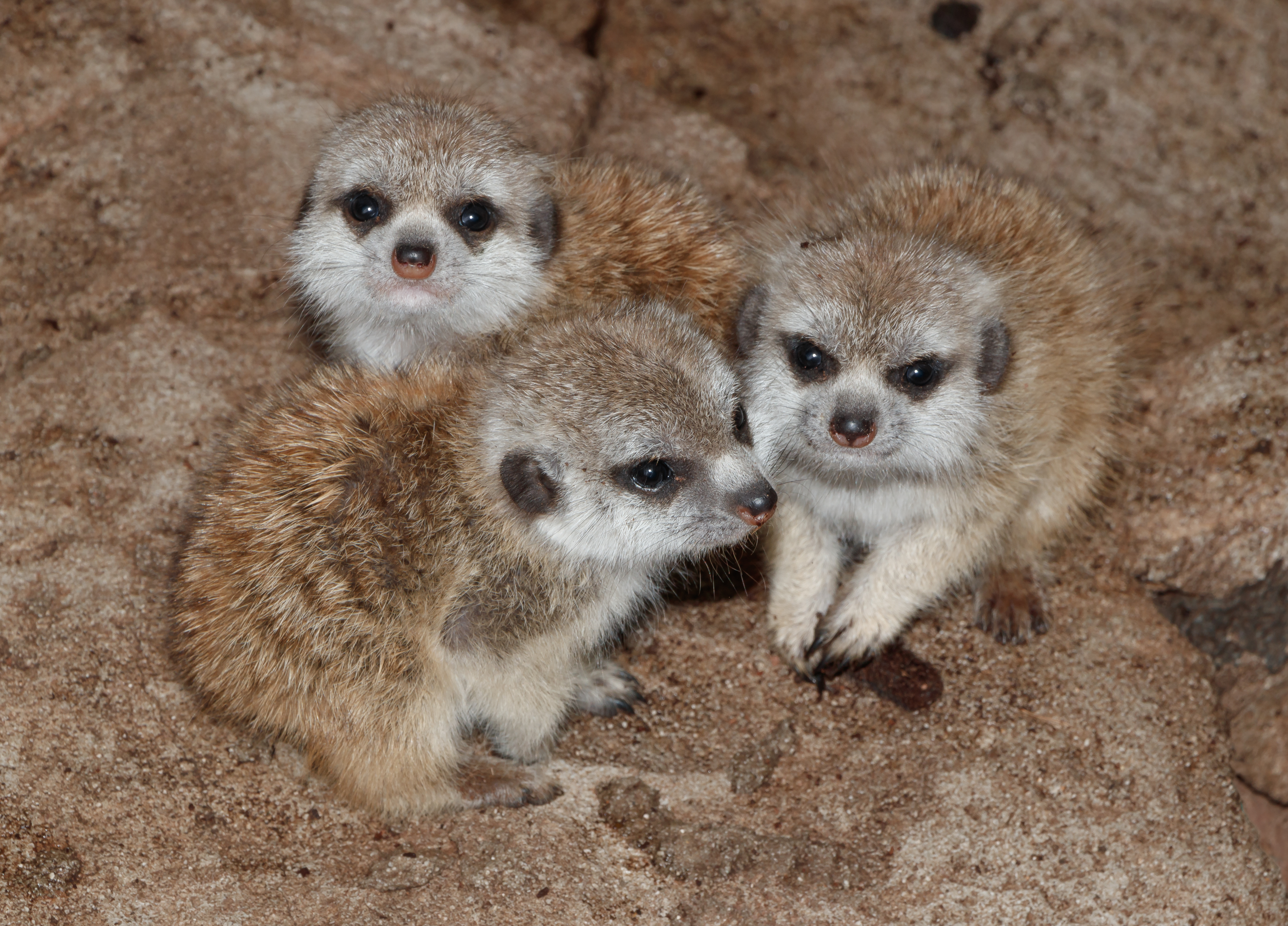 Young Meerkats (Suricata suricatta) (Schreber, 1776)); Maroparque, Breña Alta, La Palma, Canary Islands, Spain.